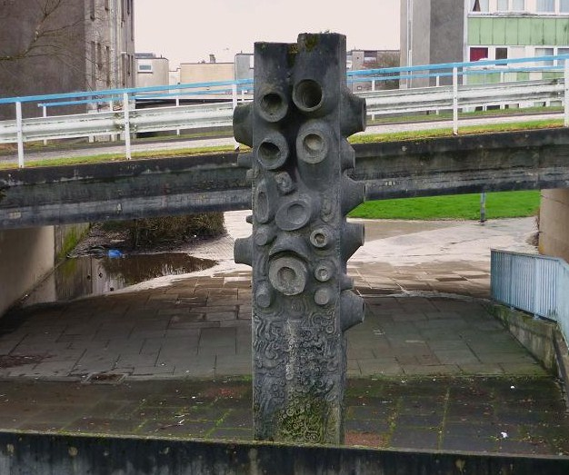 Concrete Sculpture From the 60's. I'm not sure what it's meant to be but it reminds me of a tree.